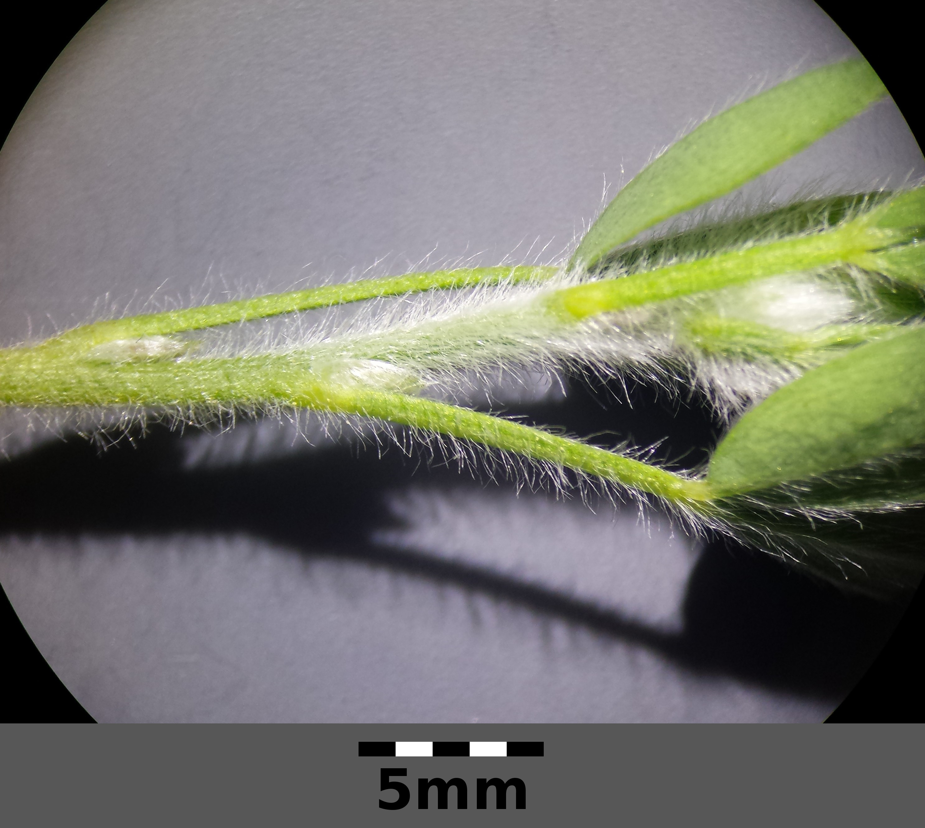 Stipe and leaves with distant hairs Taxonym: Chamaecytisus supinus ss Fischer et al. EfÖLS 2008 ISBN 978-3-85474-187-9 Location: Steinberg near Niederhollabrunn, district Korneuburg, Lower Austria - ca. 375 m a.s.l. Habitat: semi-dry grassland